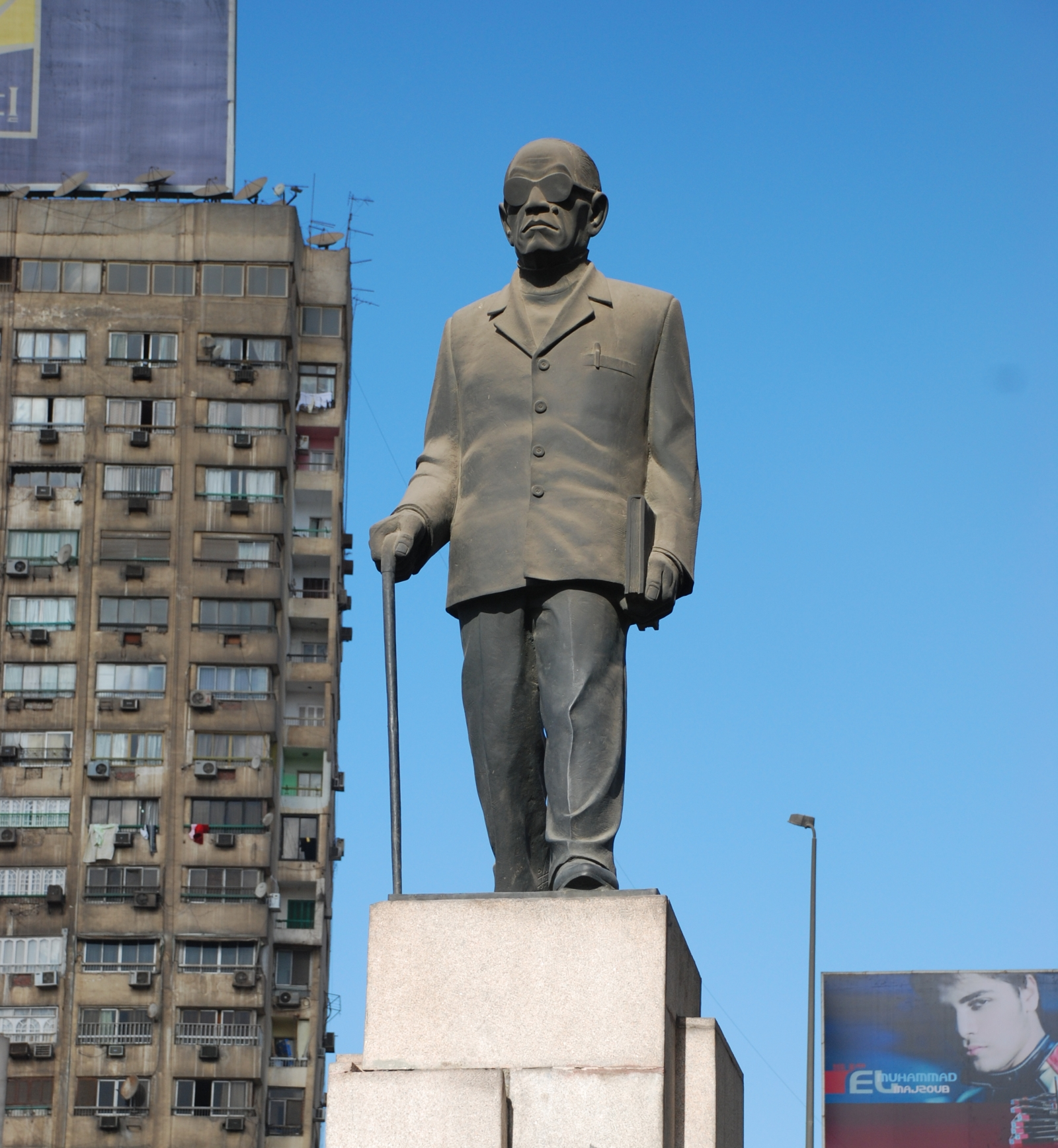 in Giza, on Sphinx Square, July 26 Street